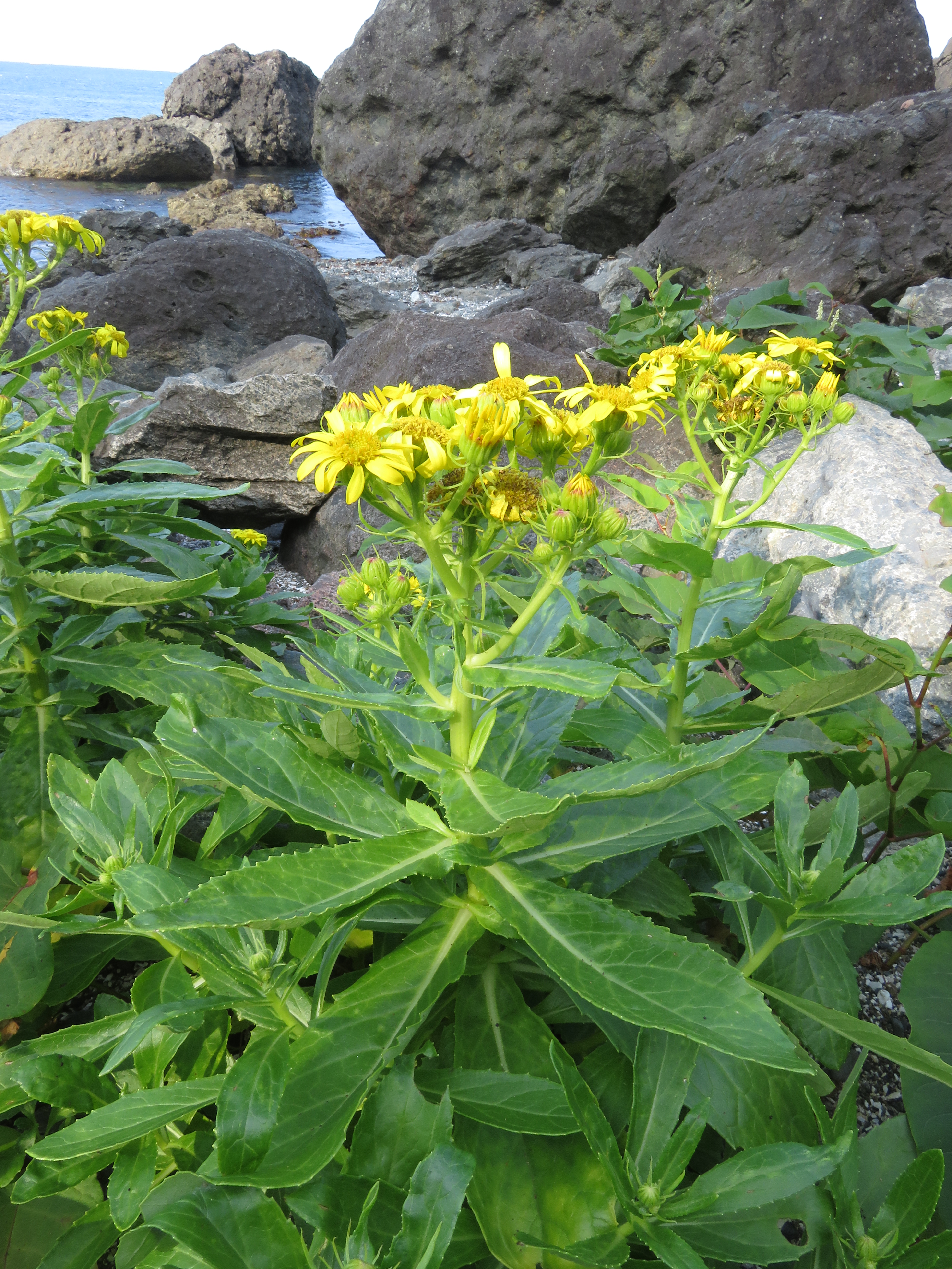 Senecio pseudoarnica, Tanesashi Coast, Aomori pref., Japan